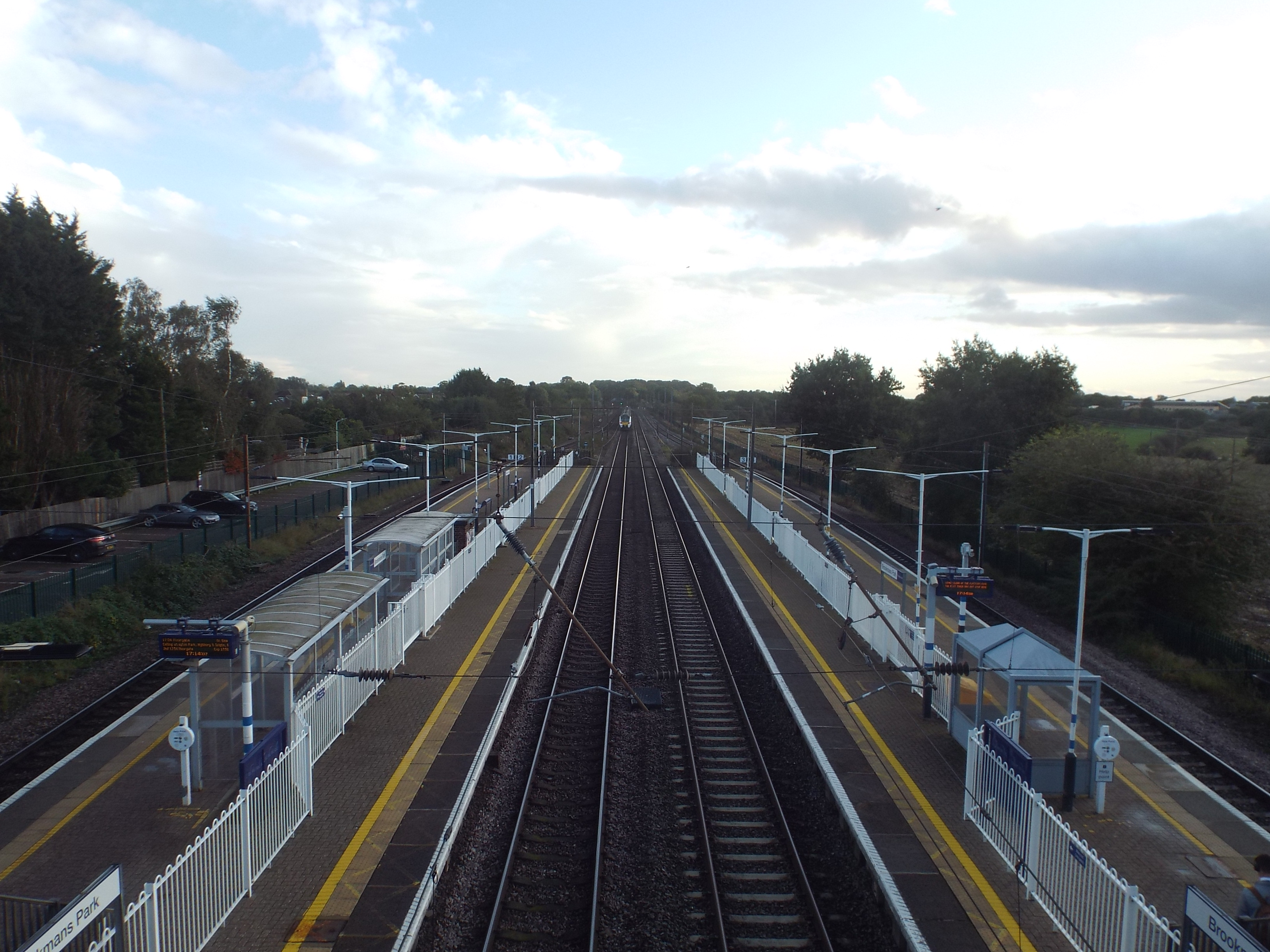 Brookmans Park station looking south from the station footbridge in October 2019